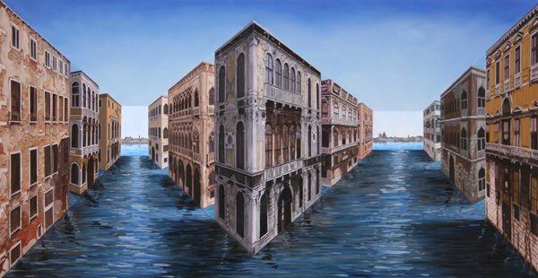 Photo of the reverspective painting Vanishing Venice by Patrick Hughes